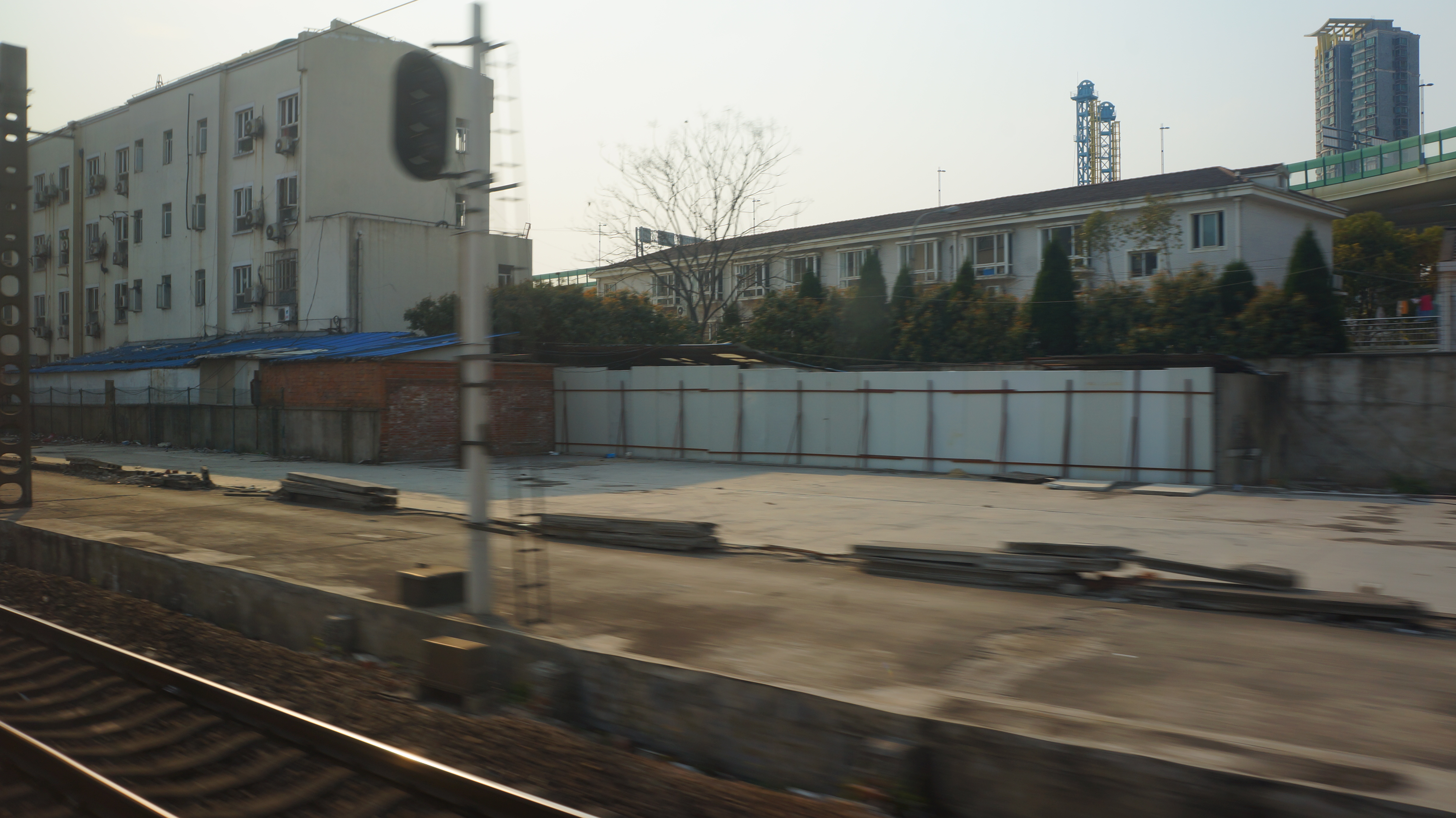 201603 Abandoned Meilong Station